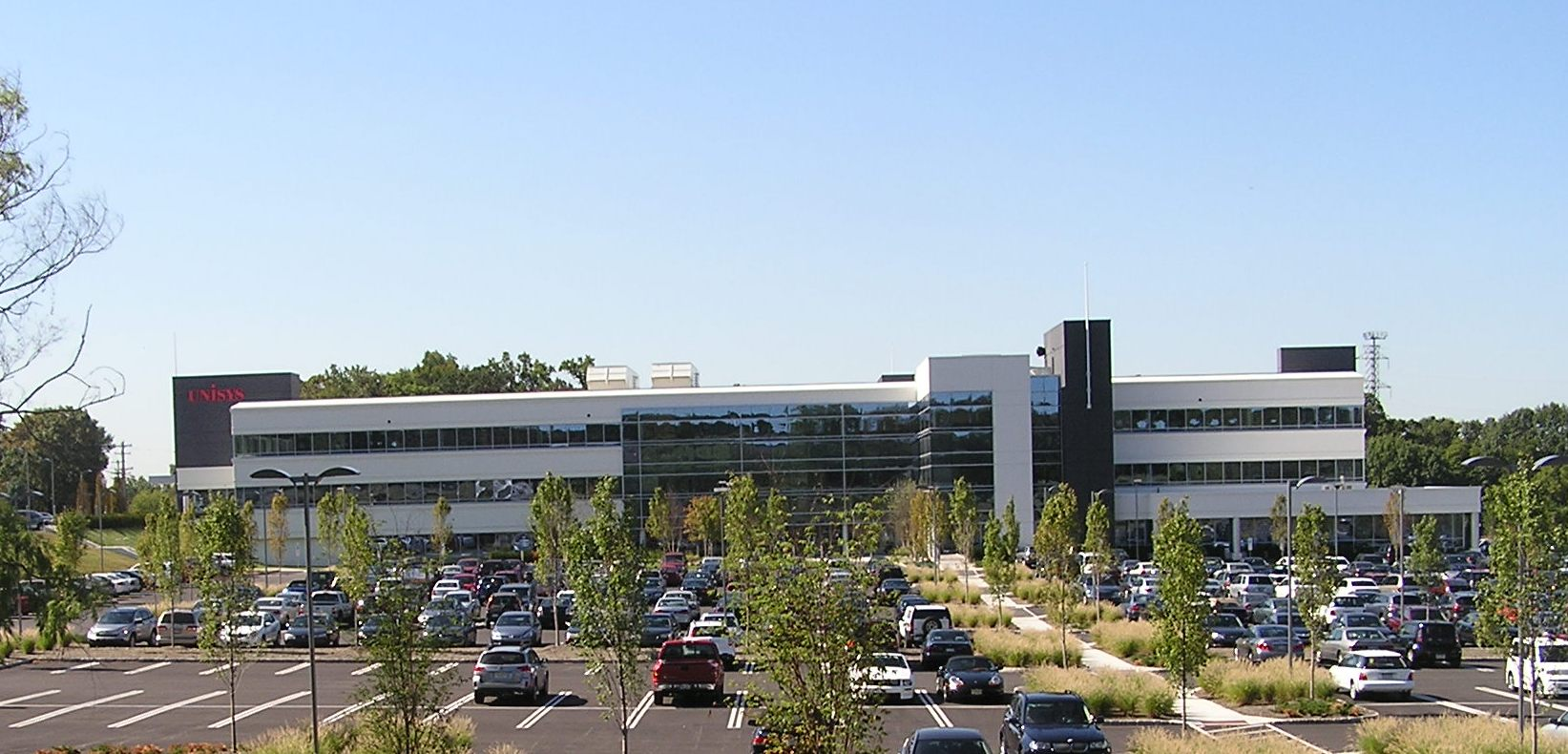 unisys